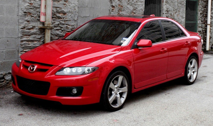 North American Mazda - Mazdaspeed6, shown here with the more-popular 18" RX-8 rims and a shark fin antenna